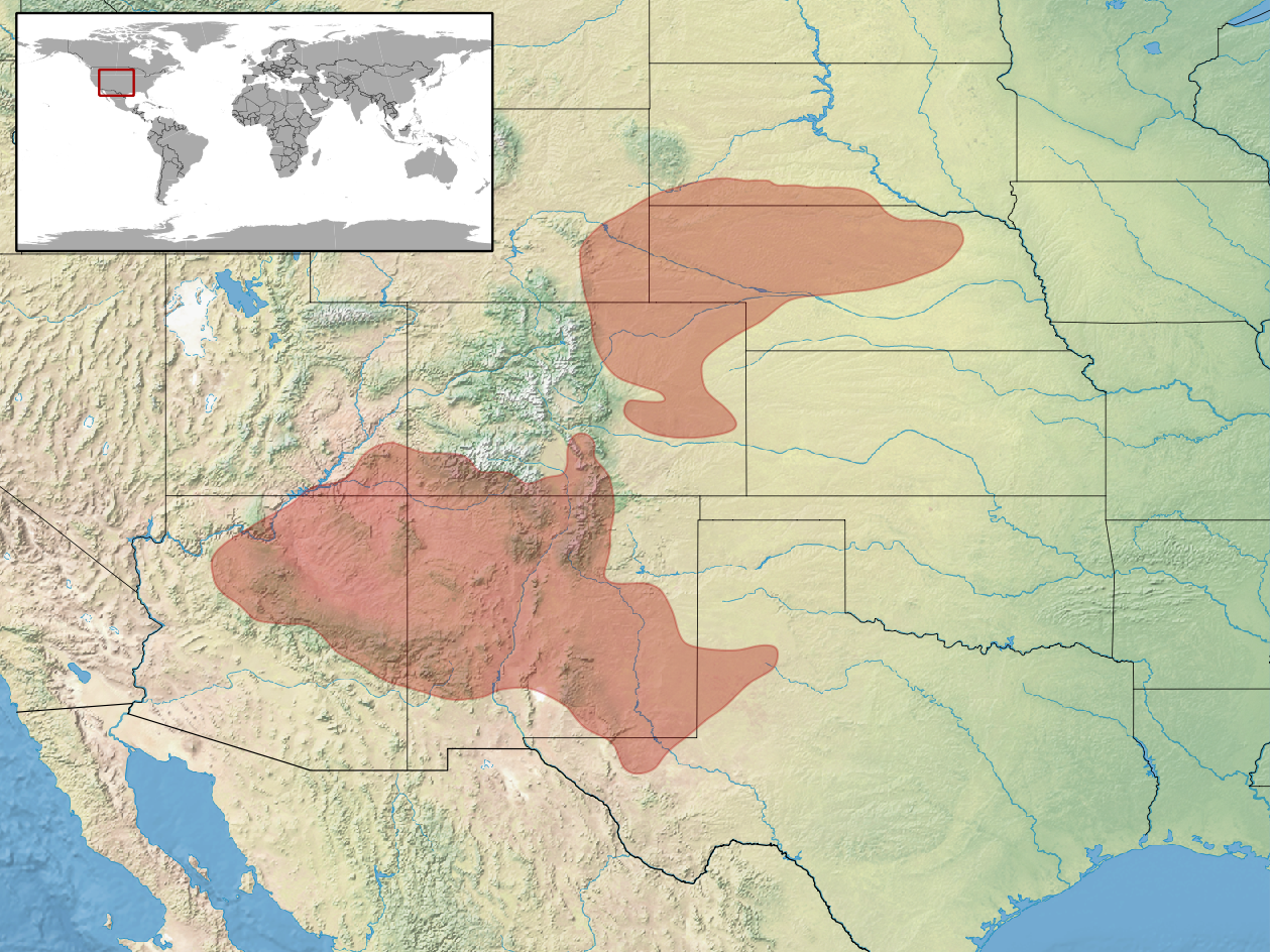 geographic distribution of Plestiodon multivirgatus